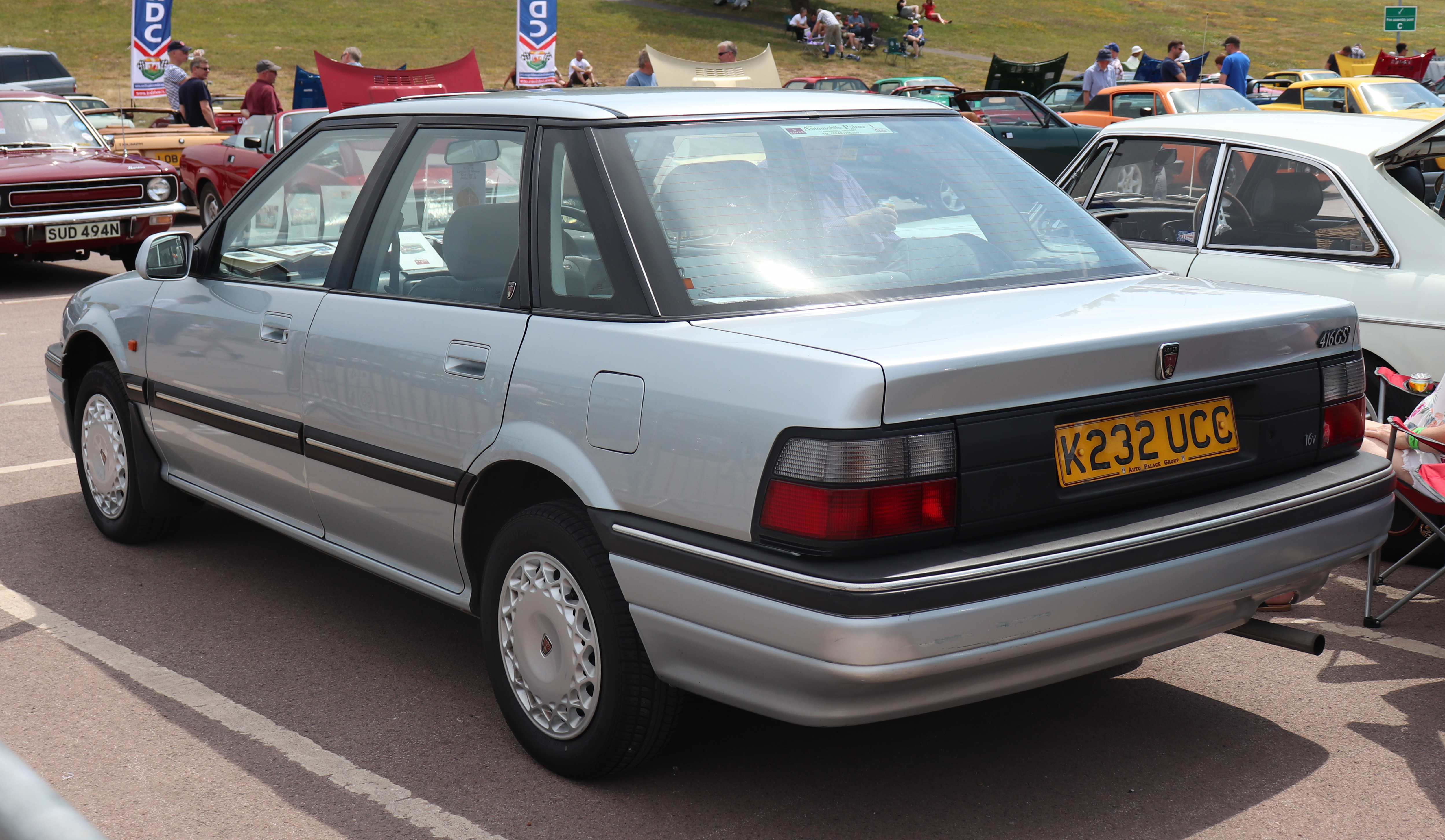 1993 Rover 416 GSi Automatic 1.6 Rear Taken at the British Motor Museum BMC & Leyland Show 2018, Gaydon